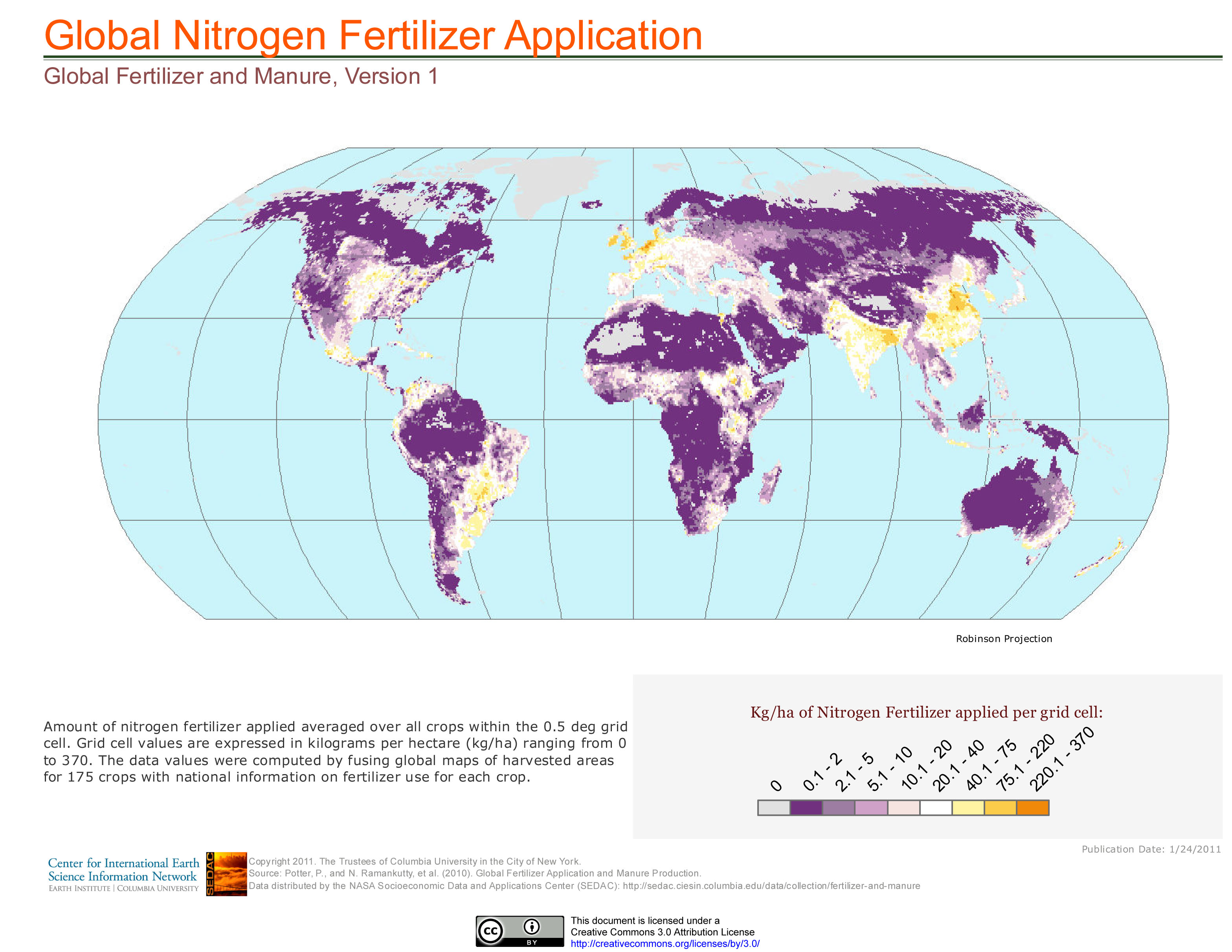 Amount of nitrogen fertilizer applied averaged within the 0.5 degree grid cell. Grid cell values are expressed in kilograms per hectare (kg/ha) ranging from 0-370. The data values were computed by fusing global maps of harvested areas for 175 crops with national information on fertilizer use for each crop.